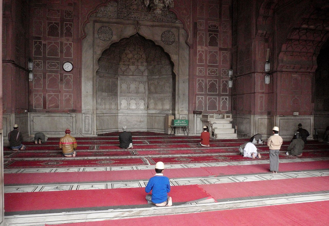 Jama Masjid, Delhi